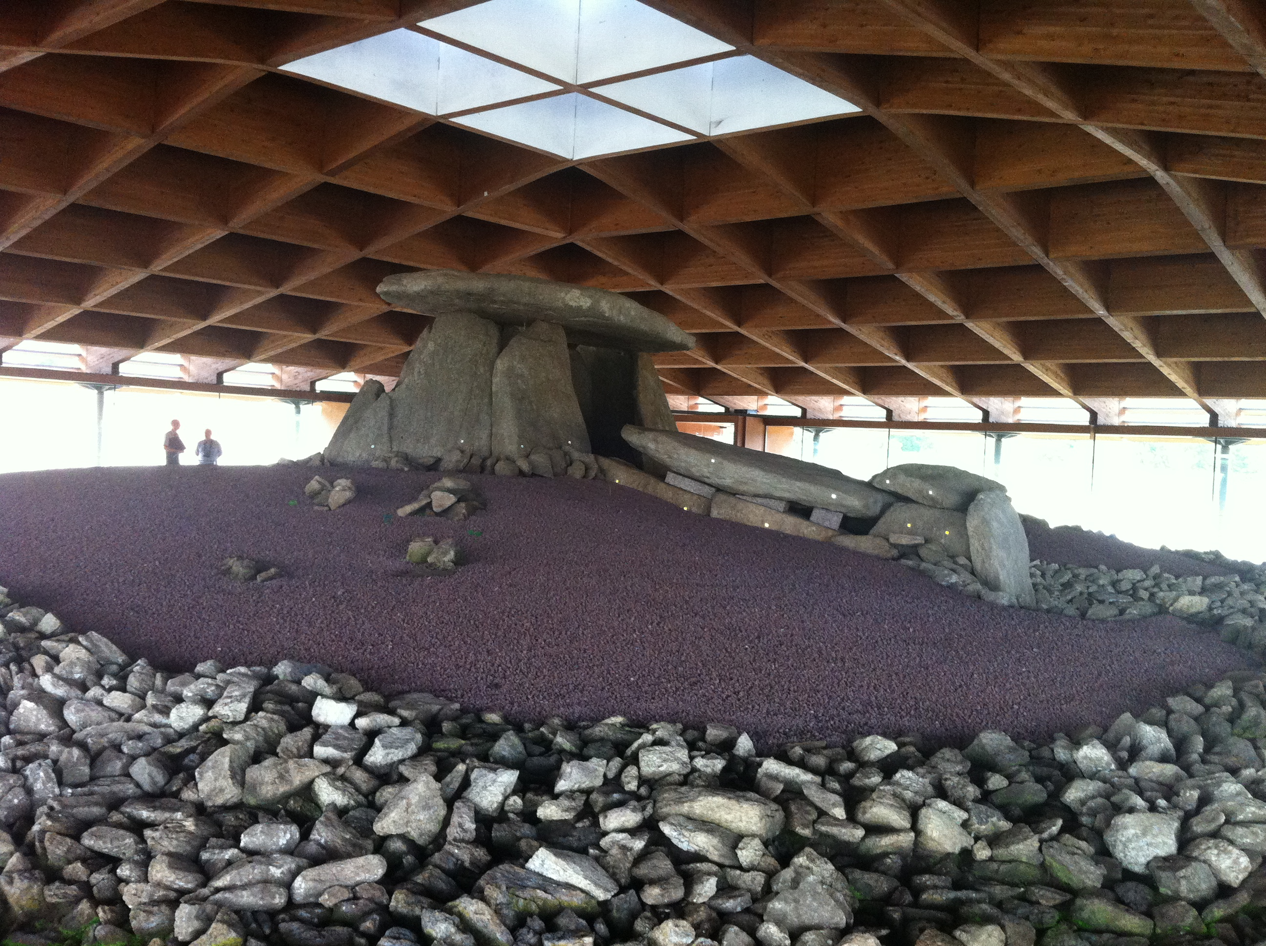 Side face of Dombate dolmen in 2013.